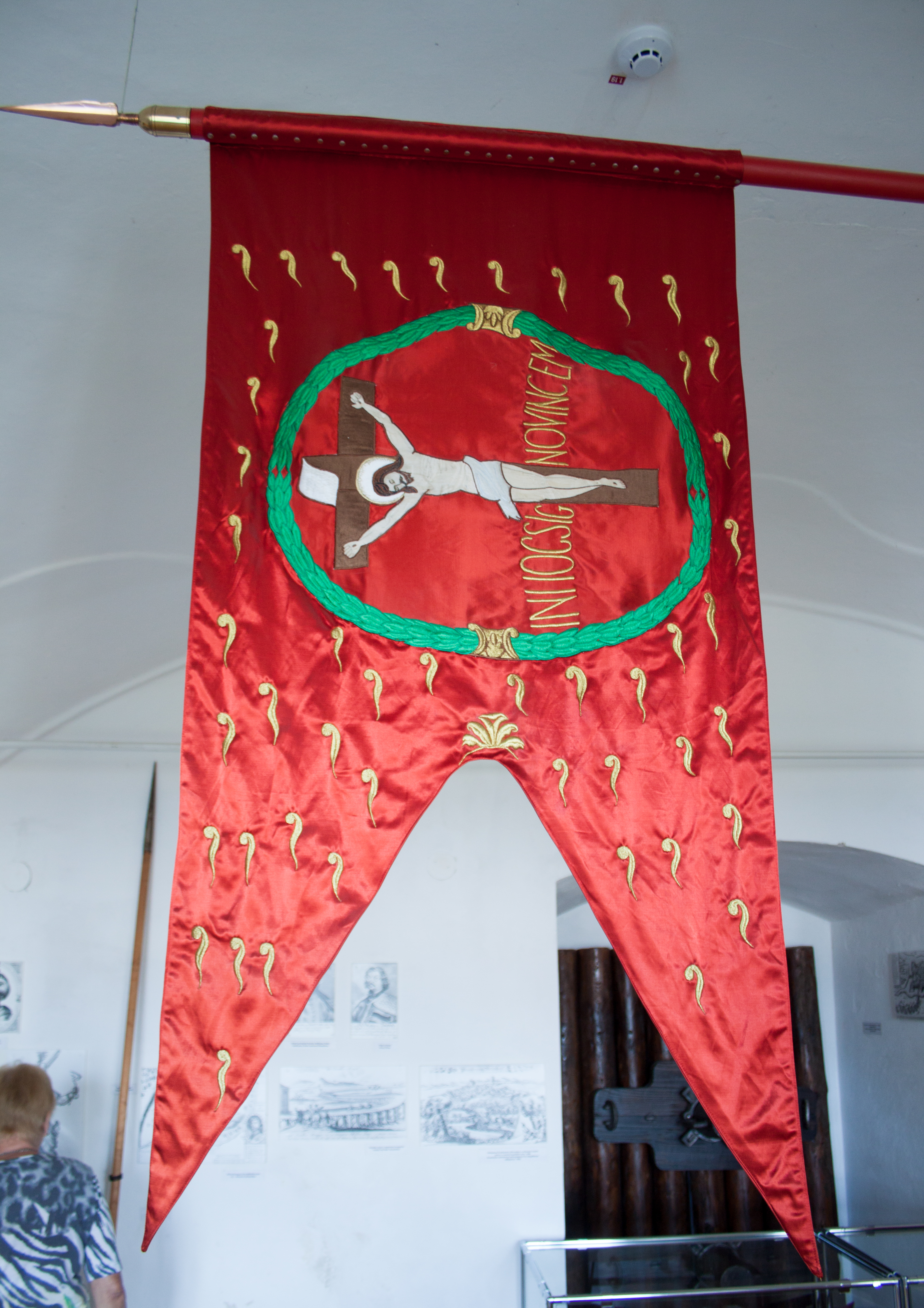 Flag of the insurrection of nobility of Zala county, 17th century, reconstruction